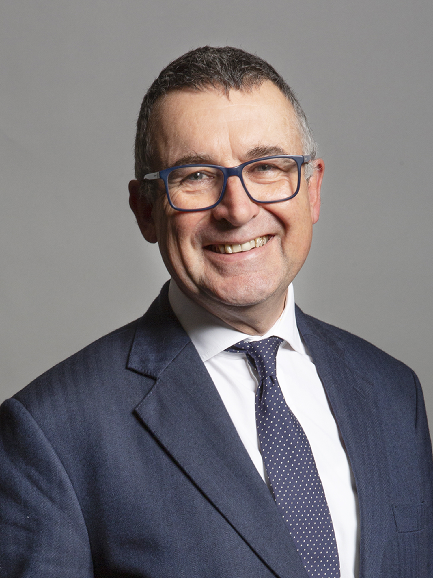 Official portrait of Sir Bernard Jenkin MP 3×4 portrait of Sir Bernard Jenkin